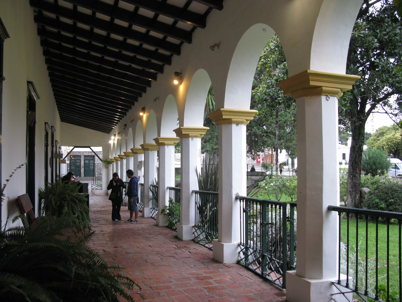 Mercado Artesanal de Salta